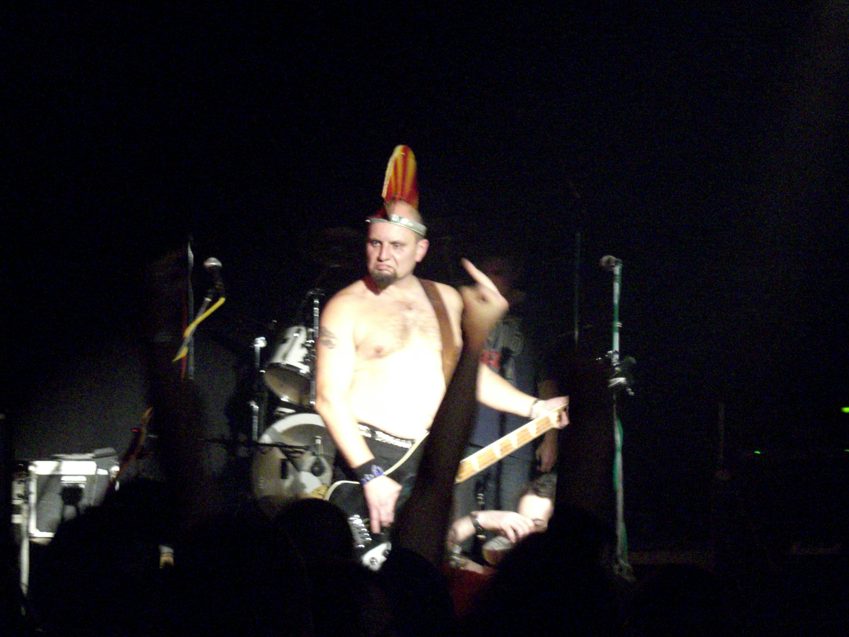 Czech legendary punk music grup Visací zámek in rock club Divadlo pod Čarou, Písek, 27.1.2007